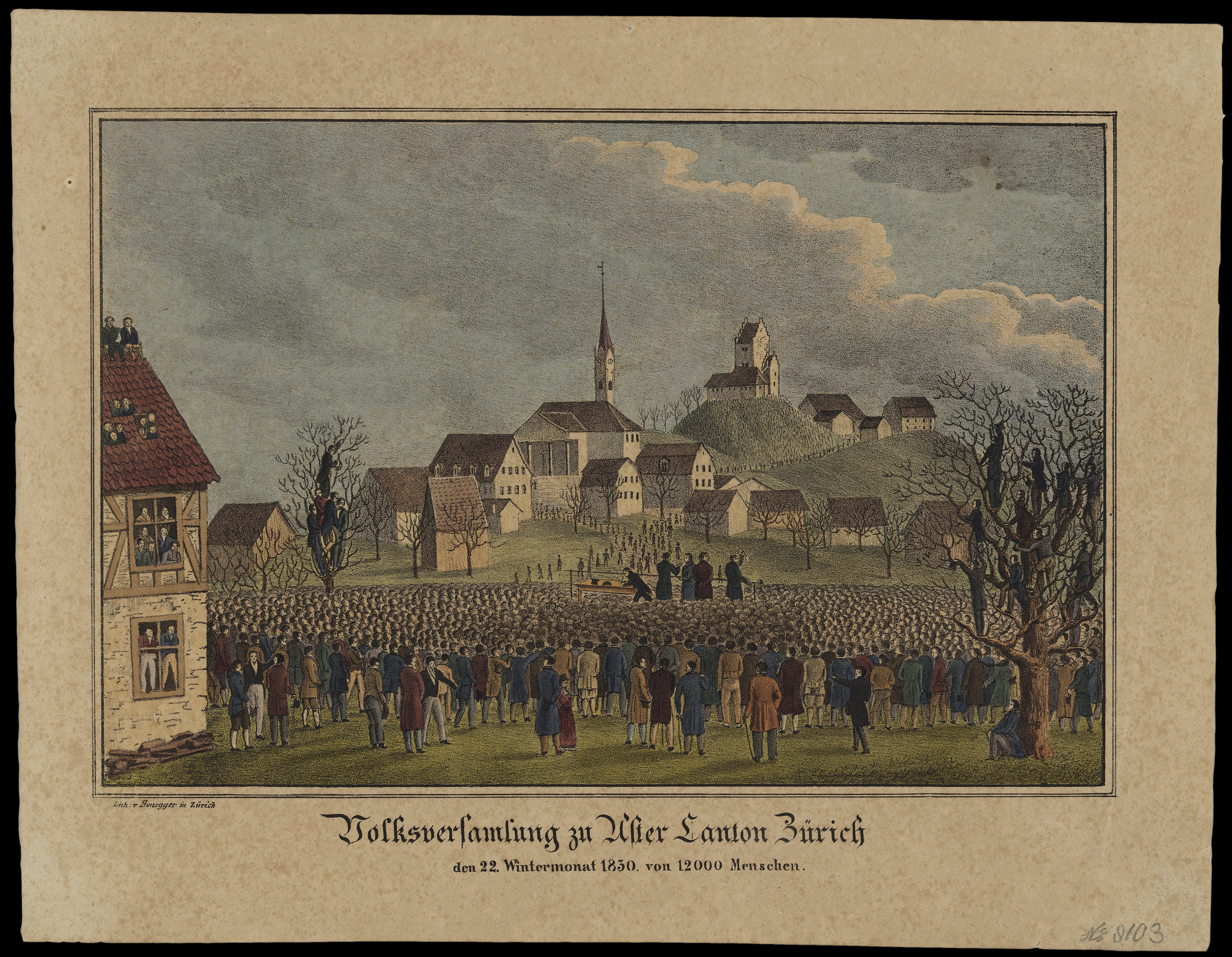 People's Assembly of 12000 people in the Canton of Zurich 22nd month of winter 1830, image of the Ustertag